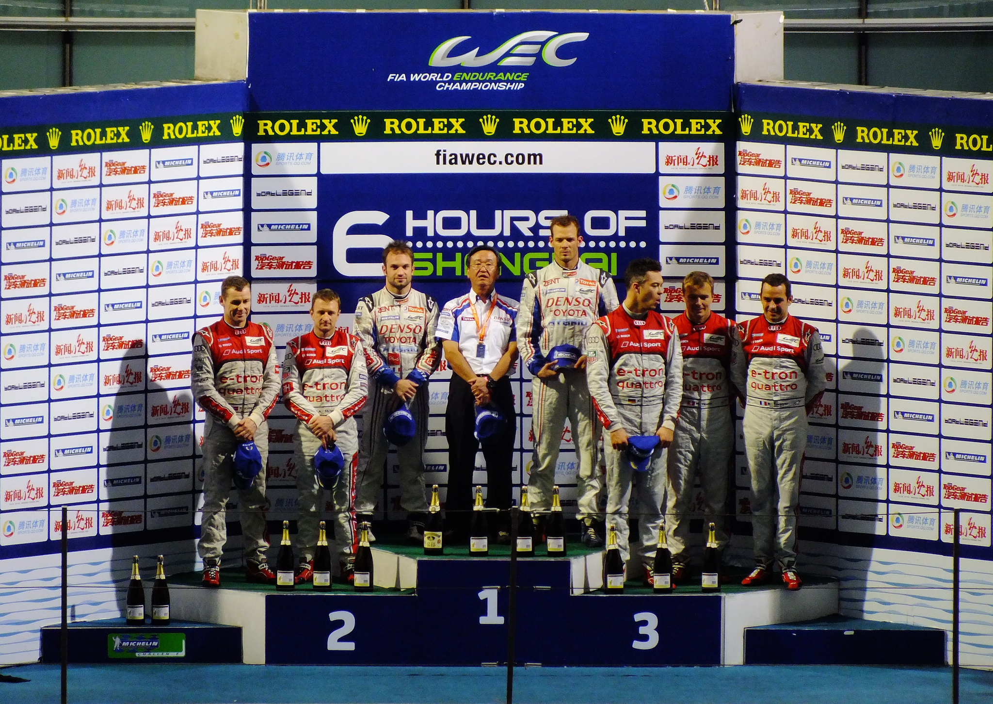 Podium Ceremony for the 2012 6 Hours of Shanghai, left to right: Tom Kristensen (Audi Sport Team Joest) Allan McNish (Audi Sport Team Joest), Nicolas Lapierre (Toyota Racing), Tadashi Yamashina (ex-Toyota Racing team principal), Alexander Wurz (Toyota Racing), André Lotterer (Audi Sport Team Joest), Marcel Fässler (Audi Sport Team Joest), and Benoît Tréluyer (Audi Sport Team Joest)